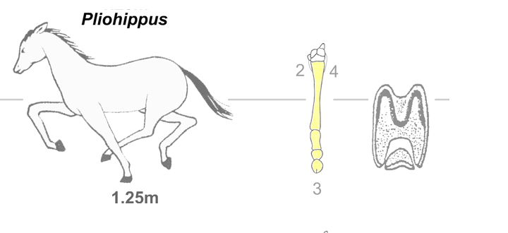 Pliohippus drawing (derived from Image:Horseevolution.png a GFDL wikimedia image) Legend for molar tooth (right) - legenda per il molare (a destra): (en): dark=enamel; dotted=dentine; white=cement (it): scuro=smalto; punteggiato=dentina; bianco=cemento